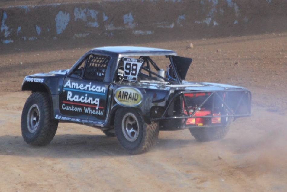 The Stadium Super Trucks vehicle of P. J. Jones.